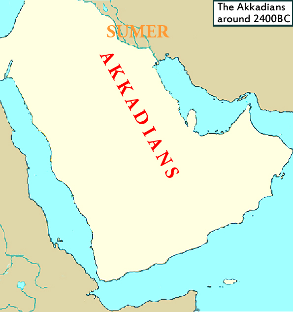 this image illustrates the theory that the Akkadian language was brought to Mesopotamia by an early East Semitic migration out of Arabia. Pre-historic, pre-migration Semites are not usually called "Akkadians". dab (ð’ ³) 09:08, 21 August 2007 (UTC)